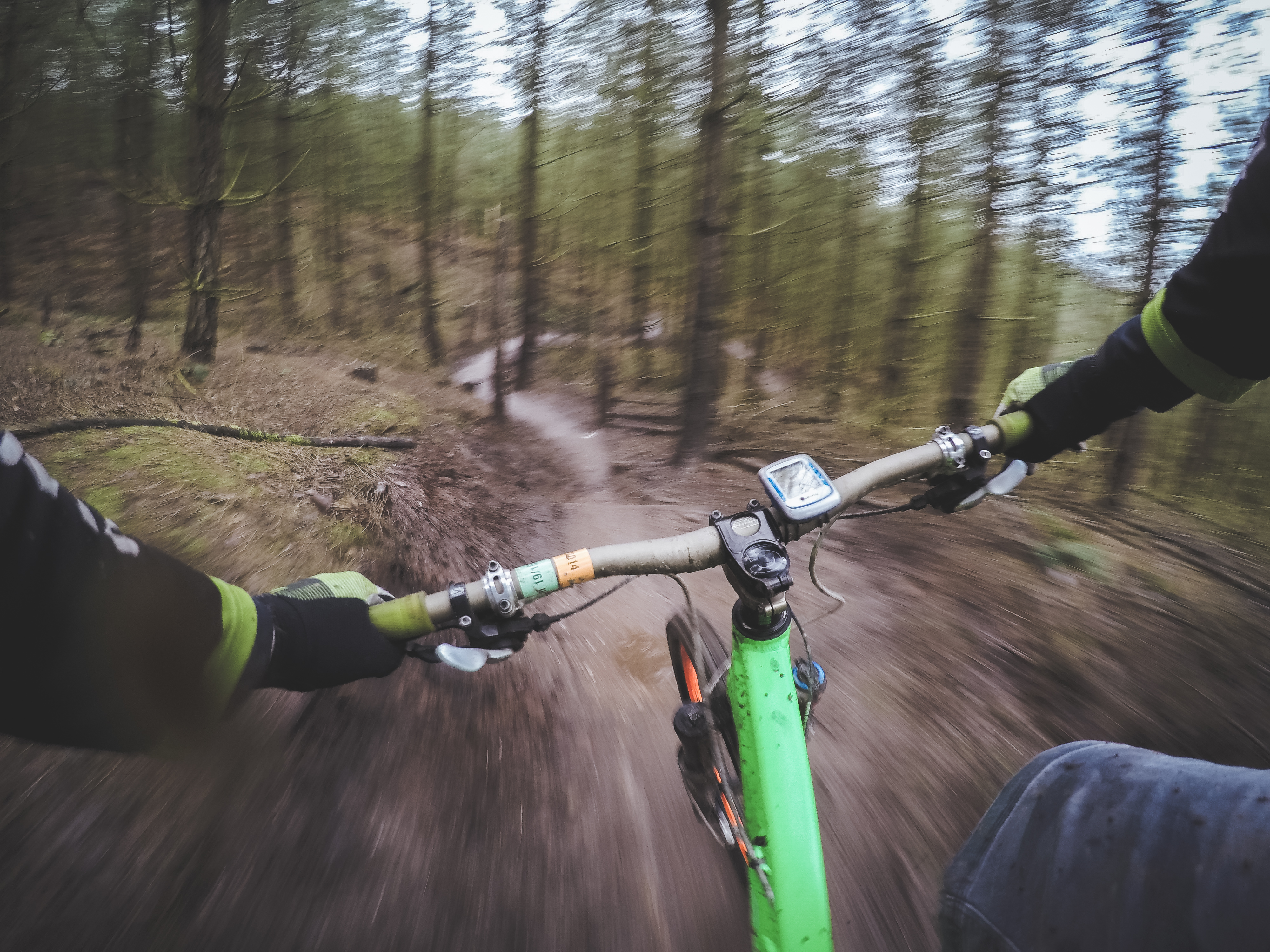 Cannock, United Kingdom